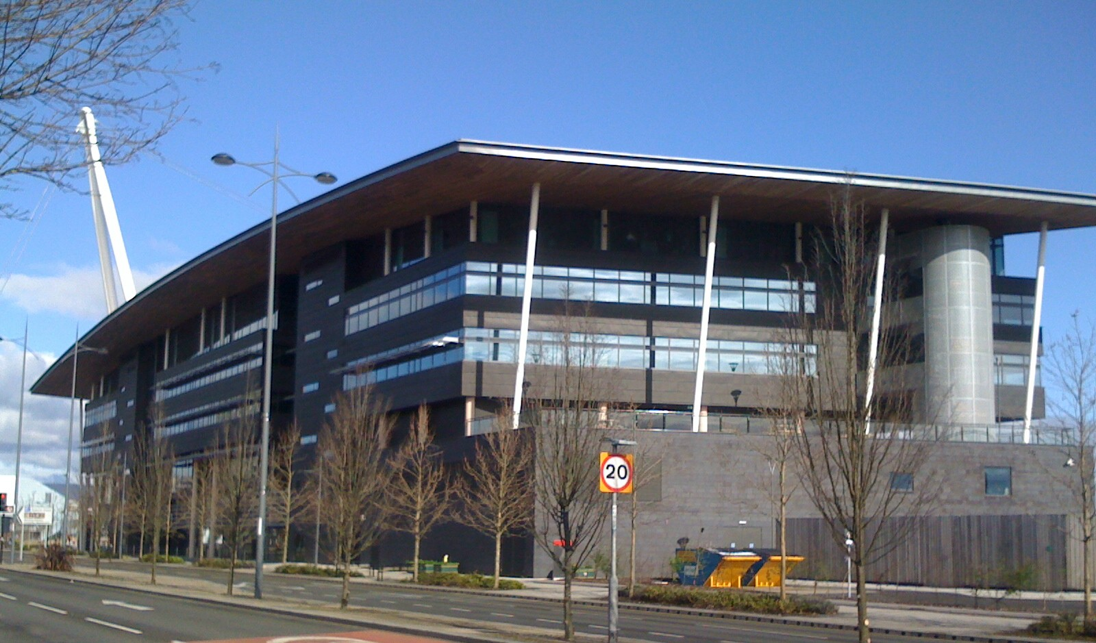 University of South Wales, Newport city centre campus. Snapshot of front of building.